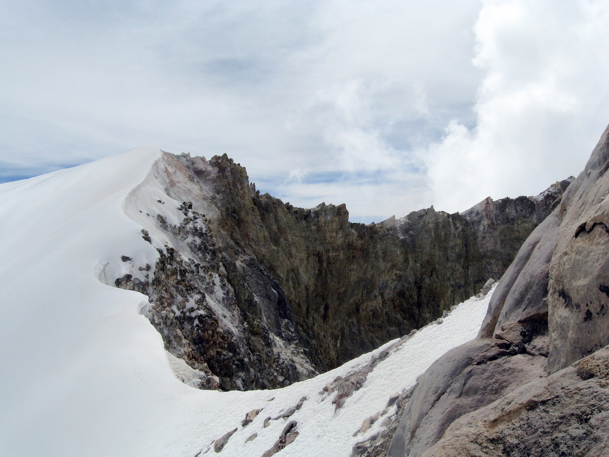 View across caldera of Pico de Orizaba, Mexico. This image taken close to the top of Glaciar Este on the infrequently undertaken circumnavigation of the crater rim.